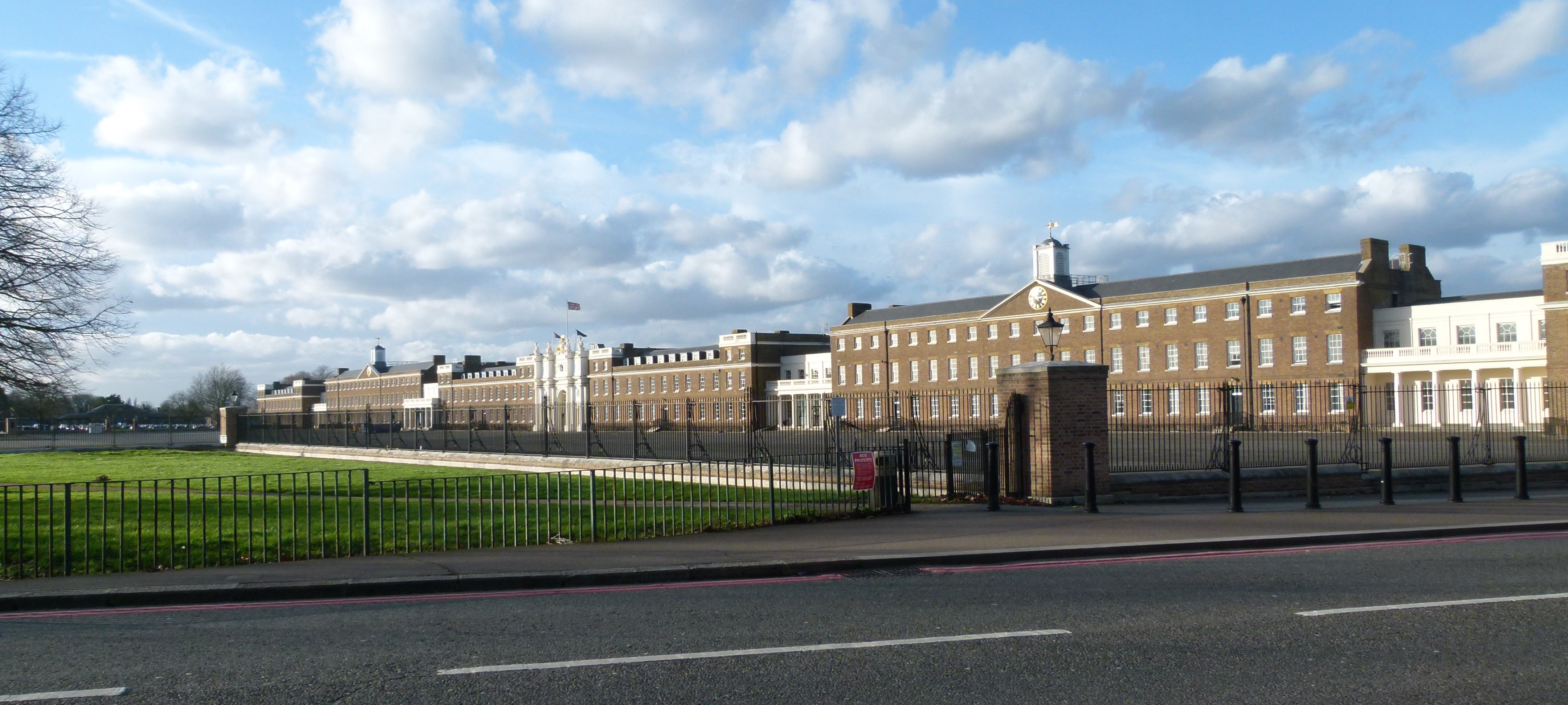 View from Grand Depot Road of the Royal Artillery Barracks in Woolwich, southeast London, UK.